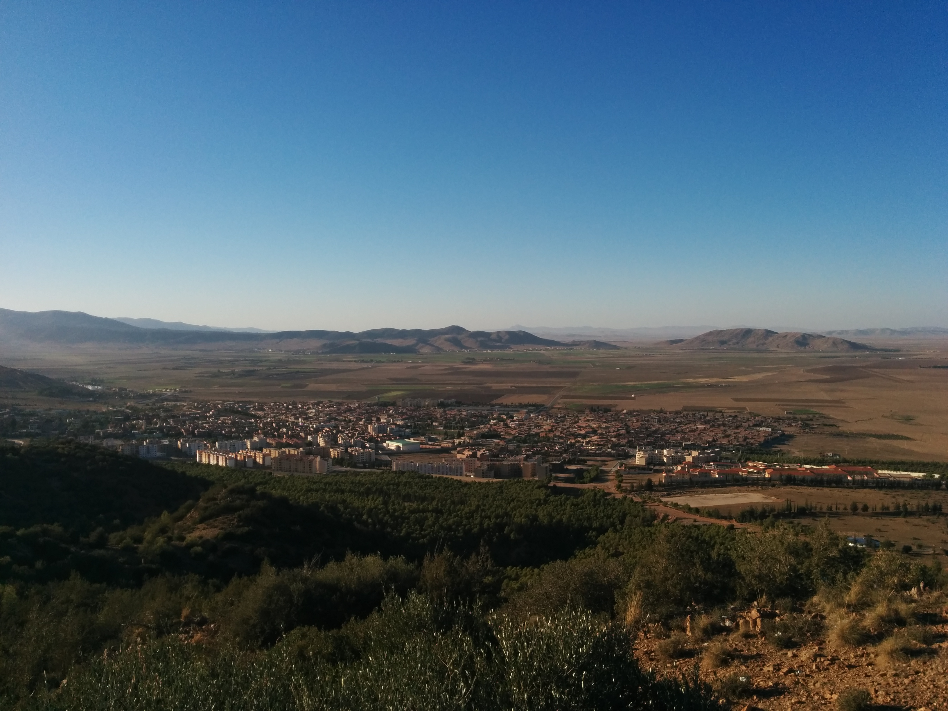 El Madher village